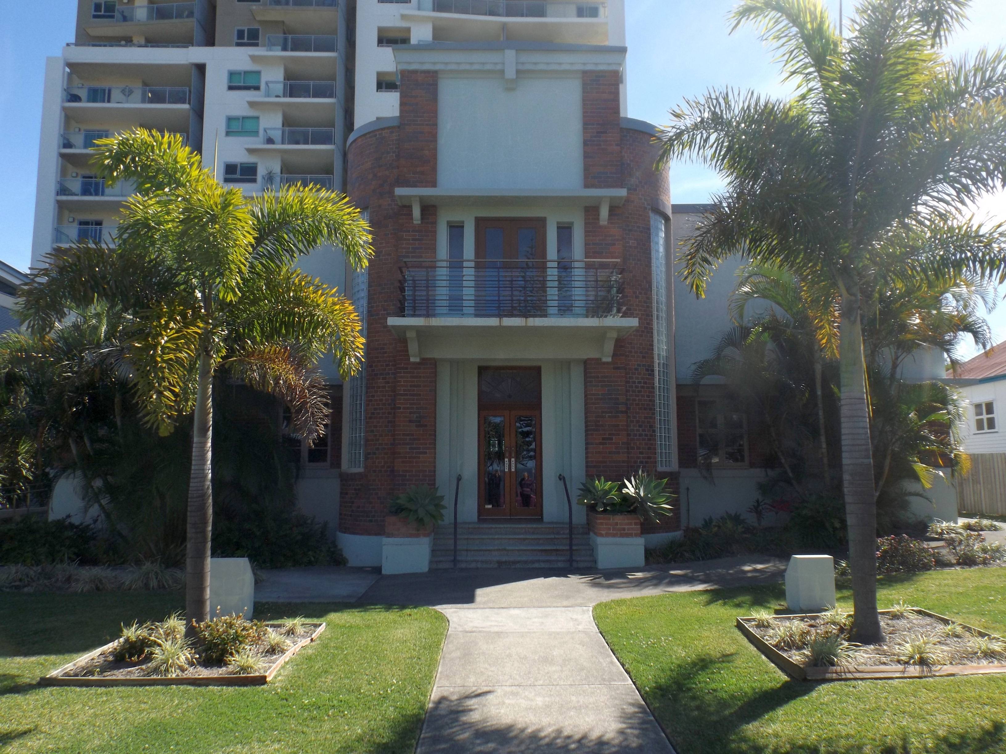 Photo of former Redcliffe Town Council Chambers at Redcliffe, Moreton Bay Region, Queensland, Australia.